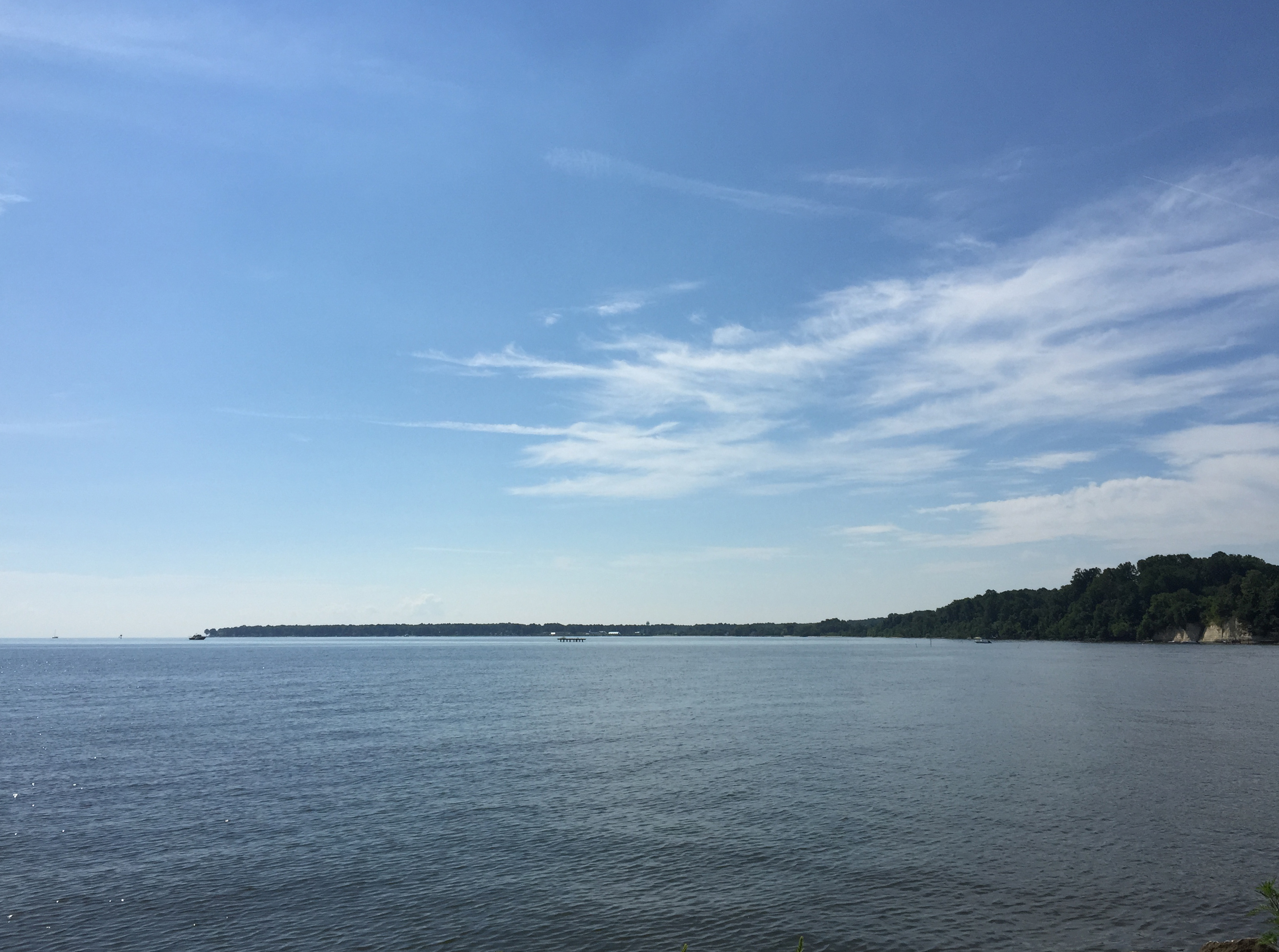 View southeast across Herring Bay from Maryland State Route 423 (Fairhaven Road) in Fairhaven-on-the-Bay, Anne Arundel County, Maryland